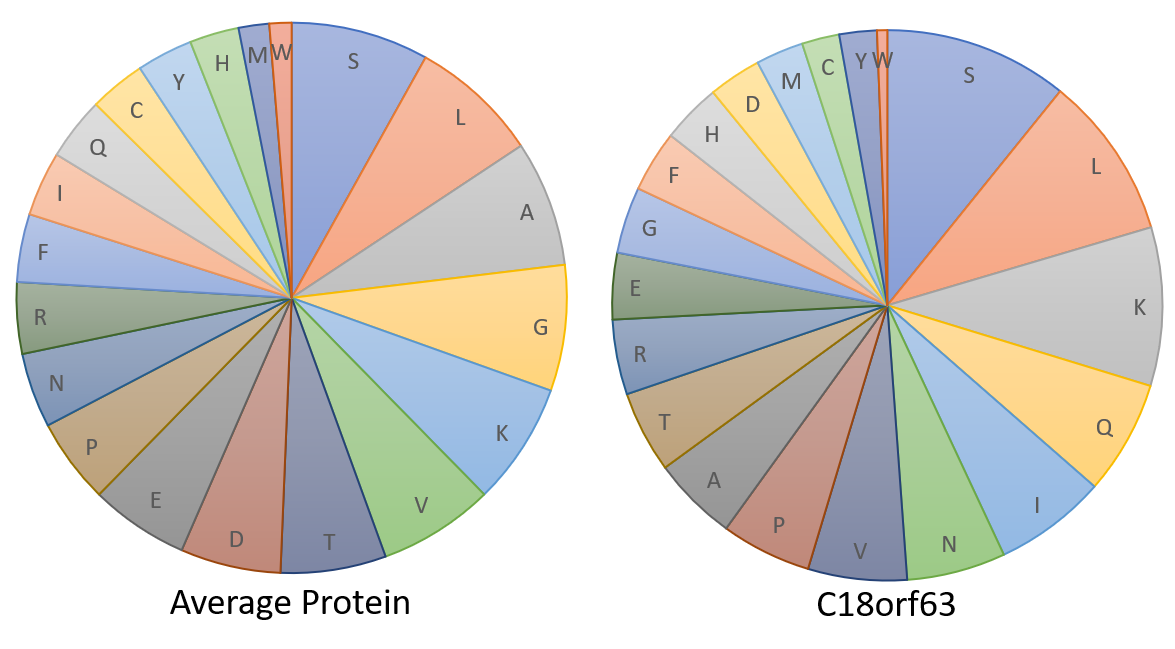 amino acid composition normal vs c18orf63